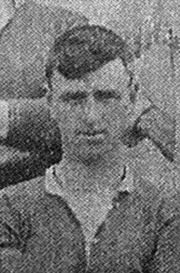 James Greechan - 1906/07 - From a Wakefields postcard produced for season 1906/07.